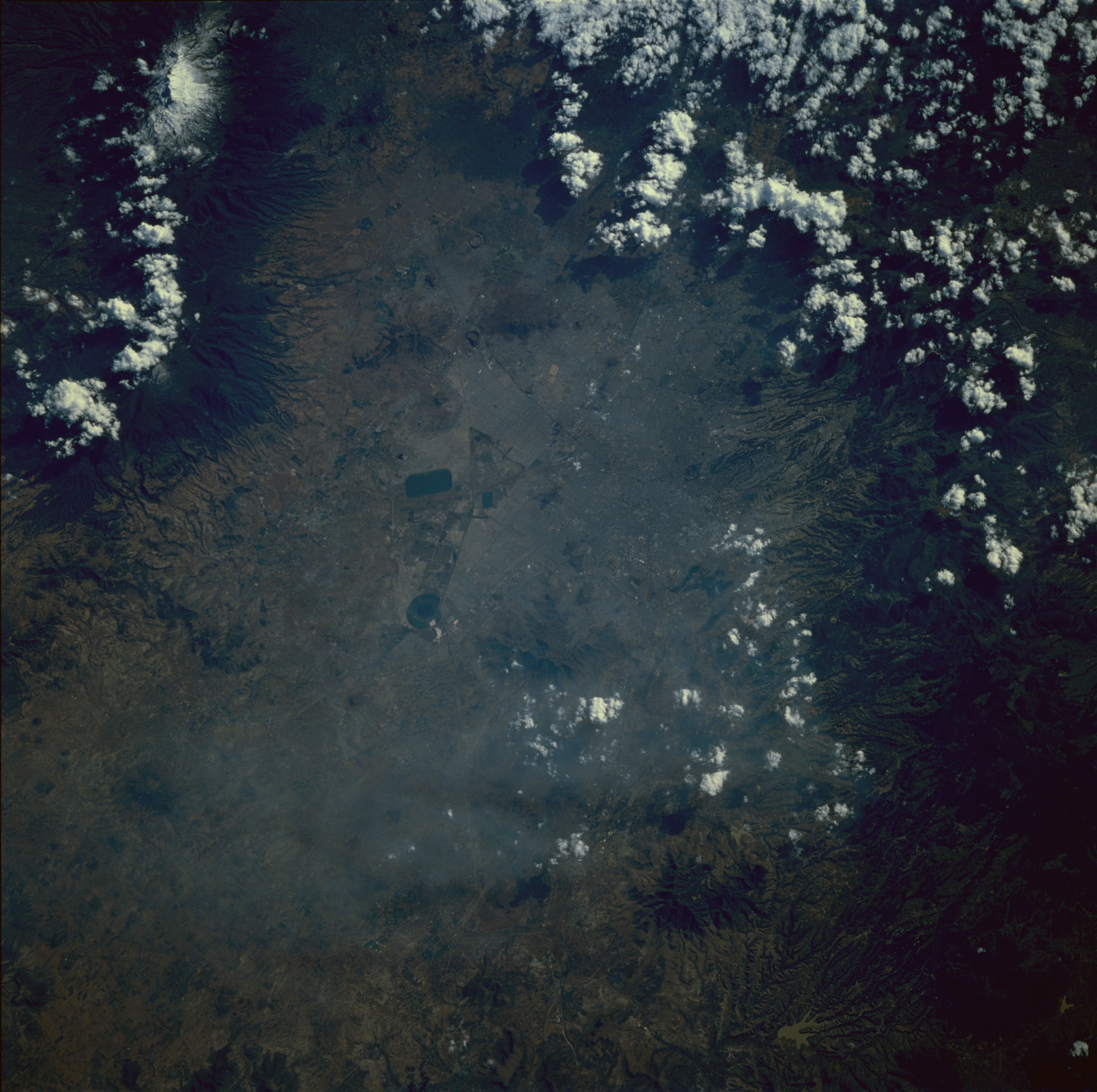 Smog in Mexico City, Mexico November 1985 - made by STS61B-40-0065 Although this photograph of the metropolitan Mexico City area is not very aesthetically pleasing because of substantial air pollution (hazy conditions, with the heaviest concentration visible northwest of the city), some street patterns can be seen at several points throughout the city. Manmade features also include two very large, dark shapes near the center of the photograph (one feature, circular; the other, rectangular). The rectangular shape is a water reservoir, and the circular feature appears to be a water holding facility (later imagery shows that this feature is now dry). The vegetated slopes (dark areas) on the surrounding volcanoes show the radial drainage patterns that are characteristic of most volcanoes throughout the world. Some clouds obscure the volcanic peaks located east of the city; however, the snow-capped peak near the town of Chiautzingo is visible. Mexico City presently has the world's second-largest metropolitan population with 22.5 million people. Some demographers have forecast an astounding total of between 40 and 50 million residents for greater Mexico City by 2010. In any case, Mexico City will become the world's largest single population center by the year 2000, surpassing metropolitan Tokyo. It is also noteworthy that the Mexico City region is part of the Ring of Fire (volcano-earthquake zone) that encircles the Pacific Ocean. Thus, this entire area is very susceptible to earthquakes and volcanic activity.